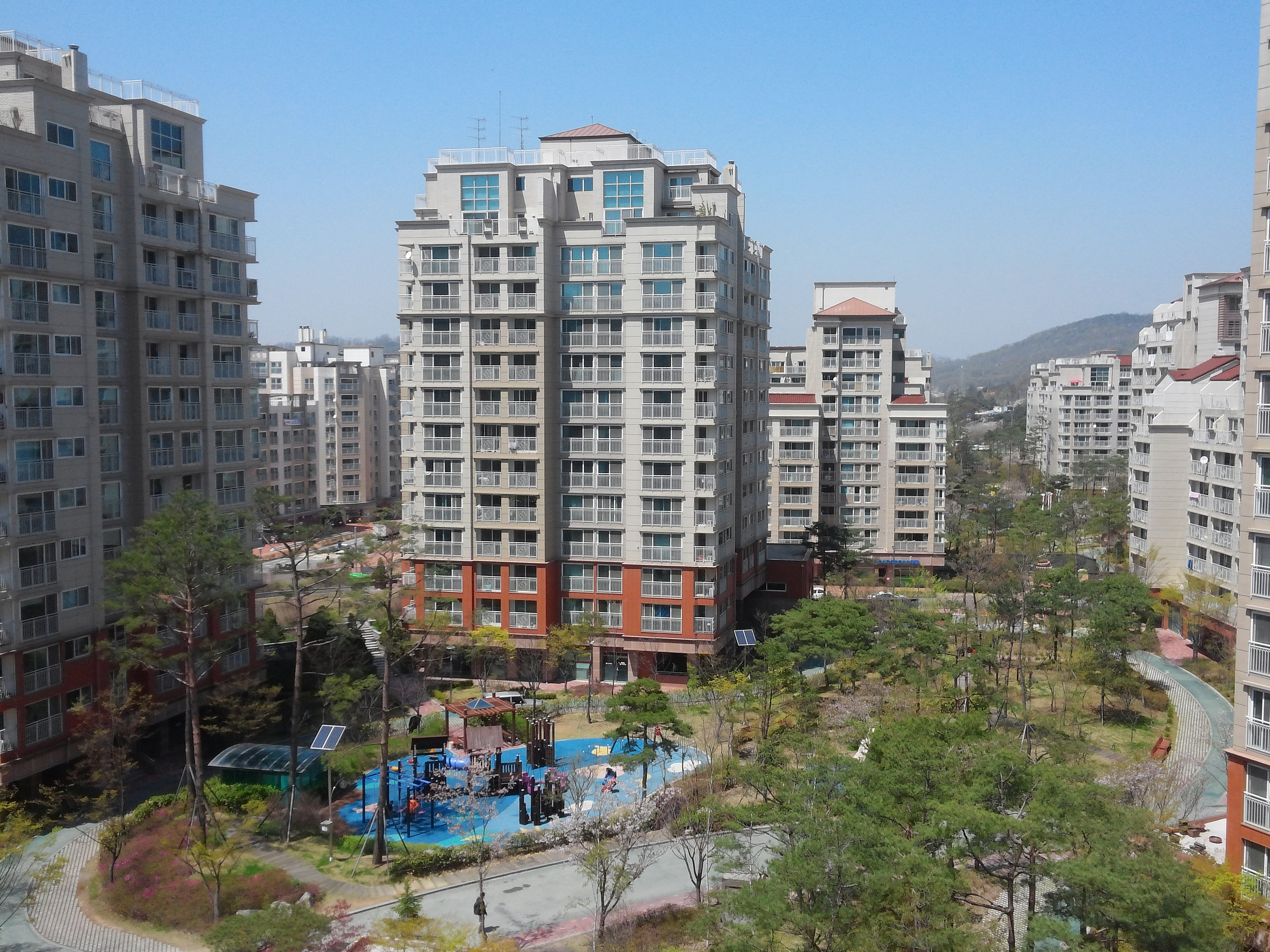 Lotte Castle apartments